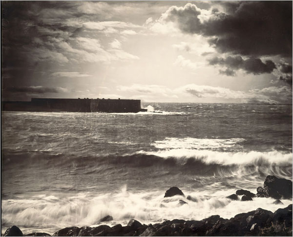 “The Great Wave, Sète” (1857) by Gustave Le Gray Metropolitan Museum of Art